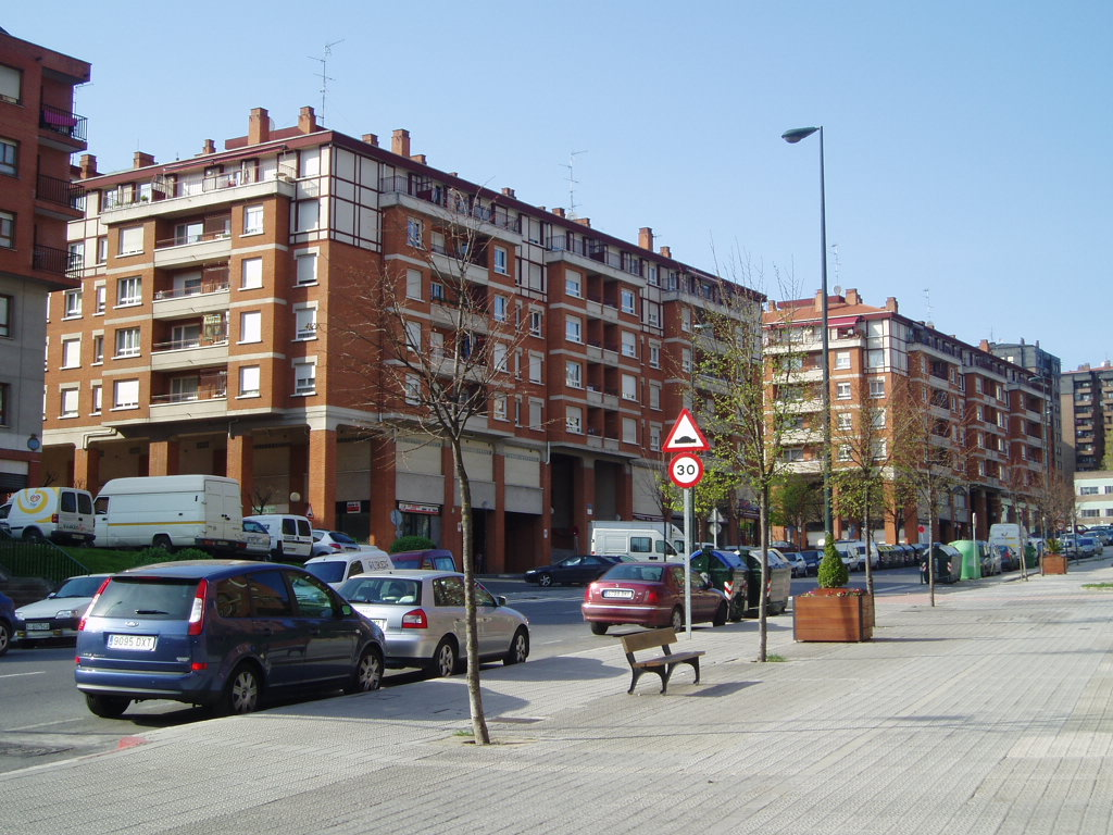 Txurdinaga ditrict (Bilbao).